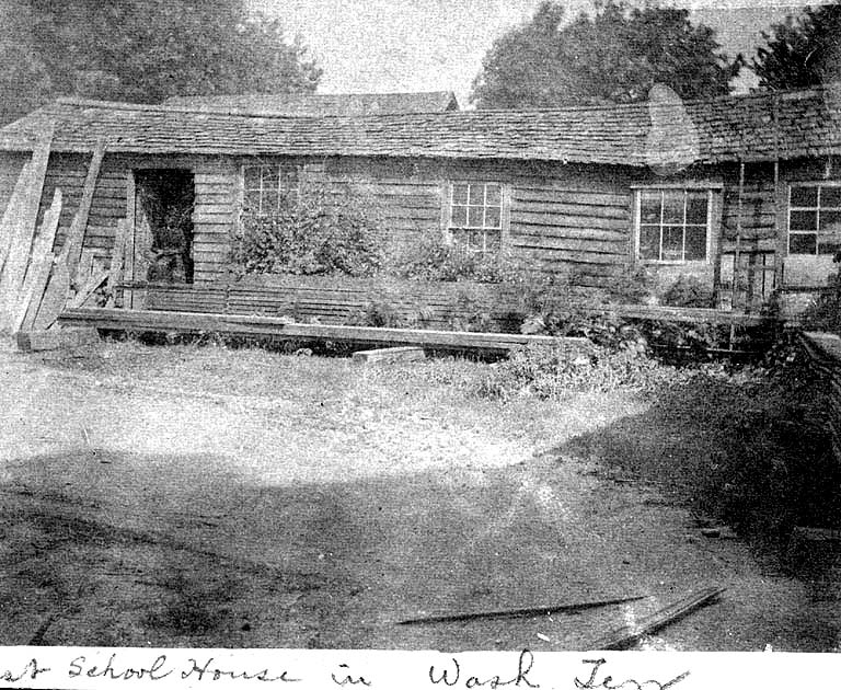 First schoolhouse in Olympia, Washington, ca. 1850 Photographer: Unknown Subjects (LCSH): School buildings--Washington (State)--Olympia Digital Collection: Washington Localities Collection Item Number: WAS0928 Persistent URL: Visit Special Collections page for information on ordering a copy. University of Washington Libraries. Digital Collections